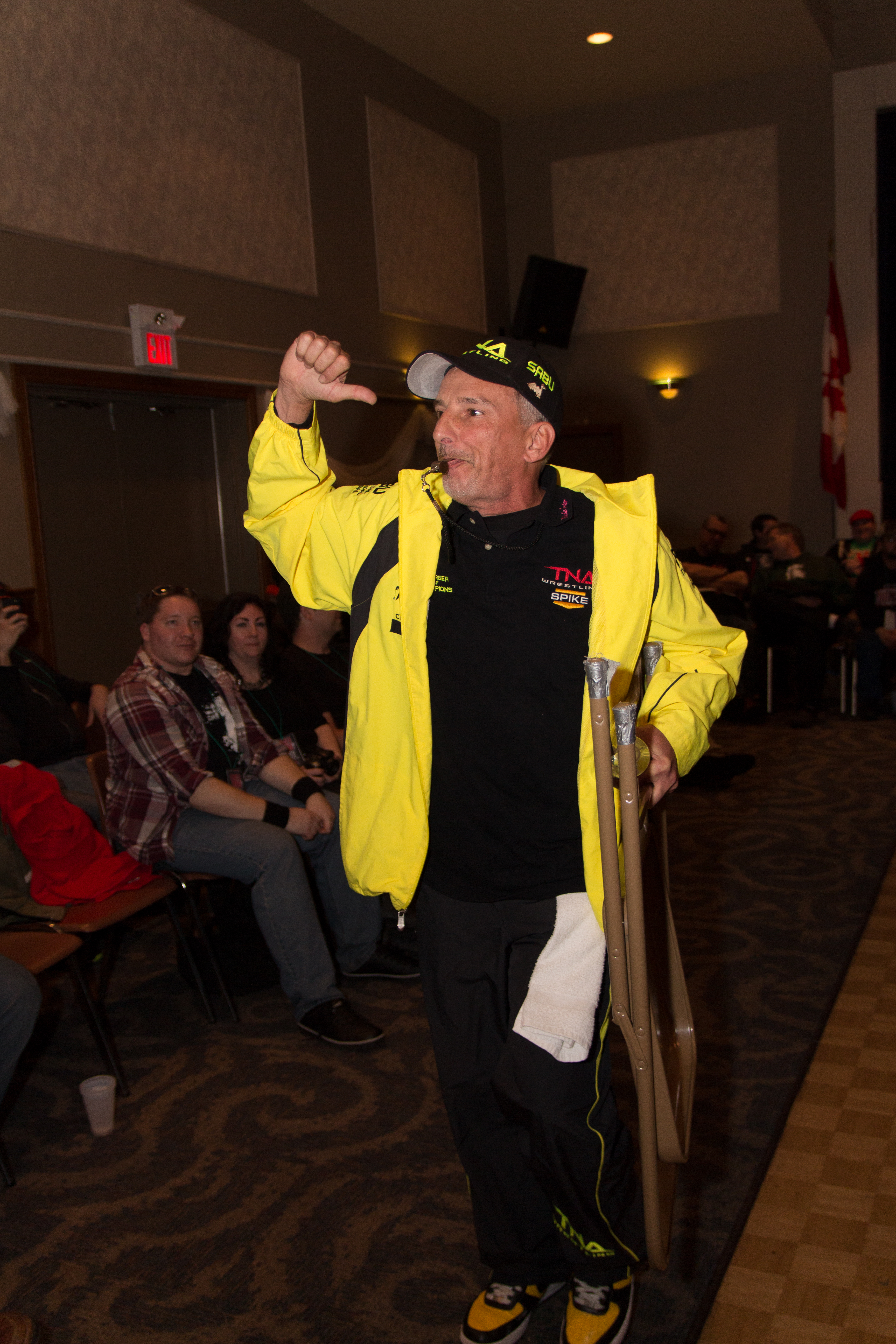 Bill Alfonso making his entrance at the Hardcore Roadtrip's Born 2B Wired show in London, ON